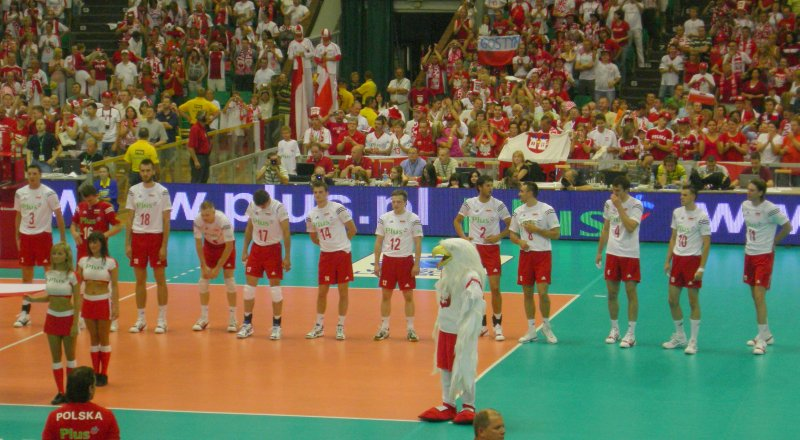 Polish National Team, Volleyball World League - match Poland - Egypt (3:0),Arena Hall, Poznań, Poland